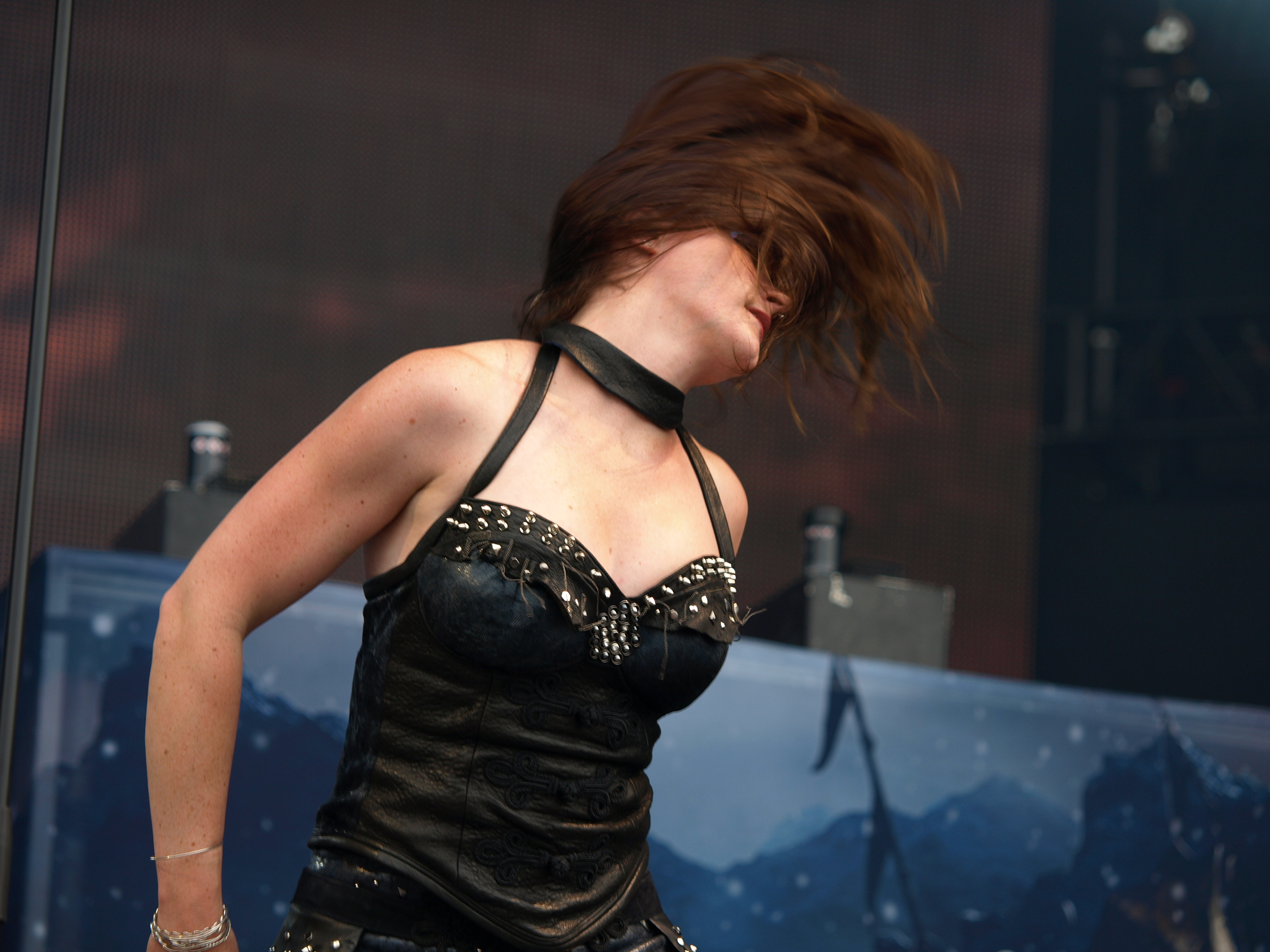 Finnish band Nightwish at Tuska Open Air 2013